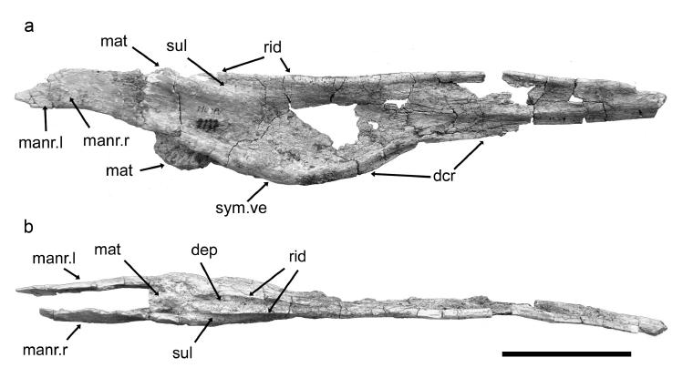 Figure 2 Argentinadraco barrealensis n. gen, n. sp., lower jaw (MUCPv-1137), (a) right lateral view; (b) dorsal (occlusal) view. Abbreviations: dep, depression; dcr, dentary crest; manr, mandibular ramus; mat, matrix; rid, ridge; sul, sulcus; sym.ve, ventral segment of the symphysis; l, left; r, right. Scale bar equals 50 mm.